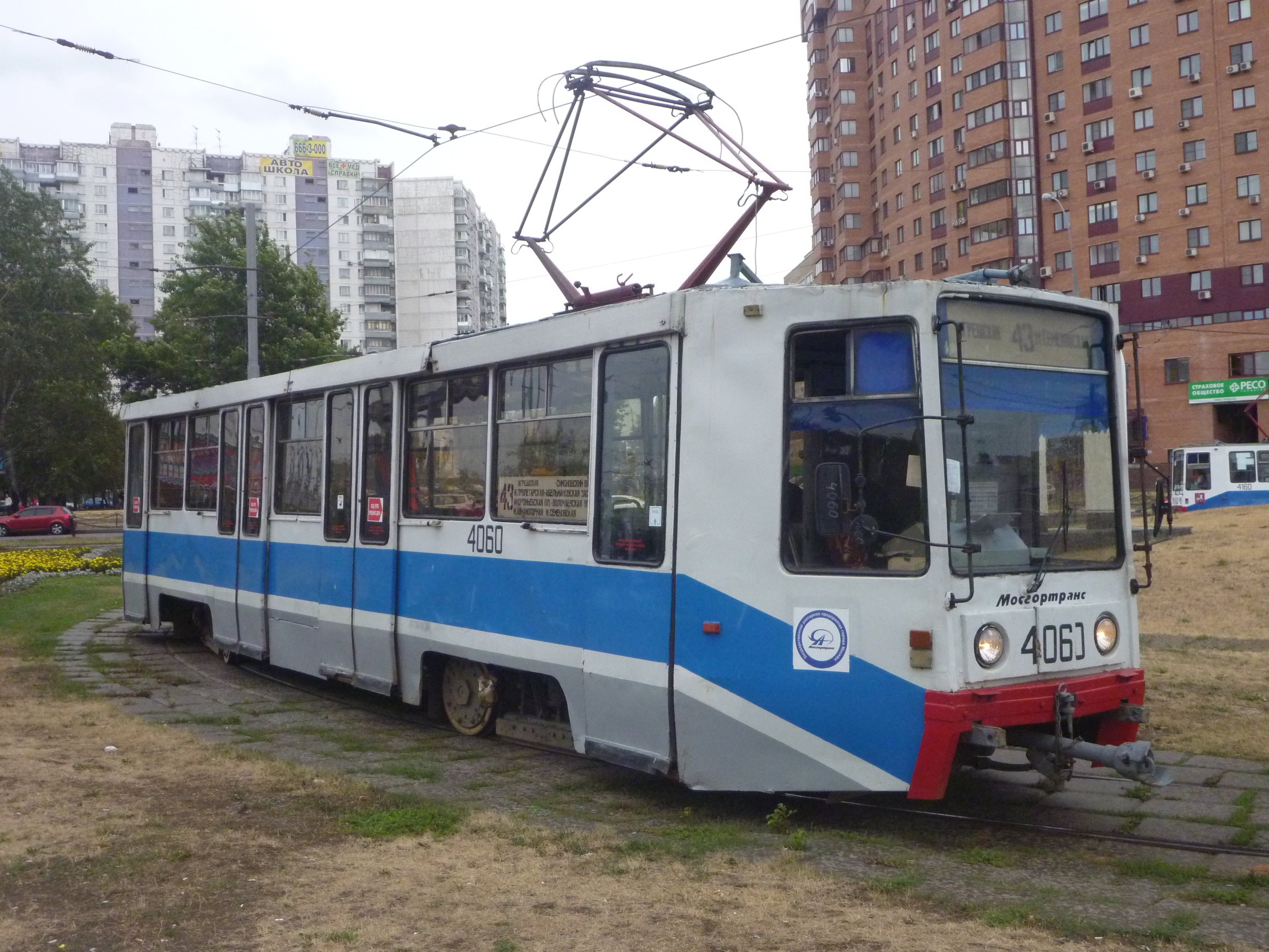 Proletarskaya, tram #43